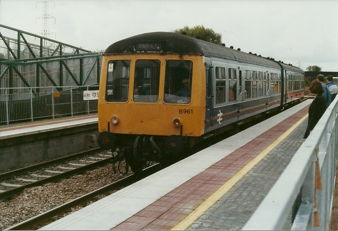 One of Bath Roads 2 car class 108 sets B961 formed 53608 54208 runs into Worle. This was the first day of service at the newly opened station. The station was officially opened in the mid morning, this was a lunchtime service that I caught to work at Bristol for a 14.00 start, 24/9/90